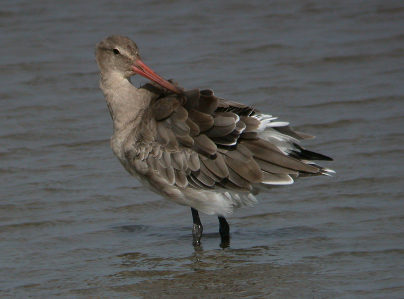 Winter-plumaged Black-tailed Godwit, Limosa limosa, preening at RSPB Titchwell Marsh nature reserve, Norfolk, England.